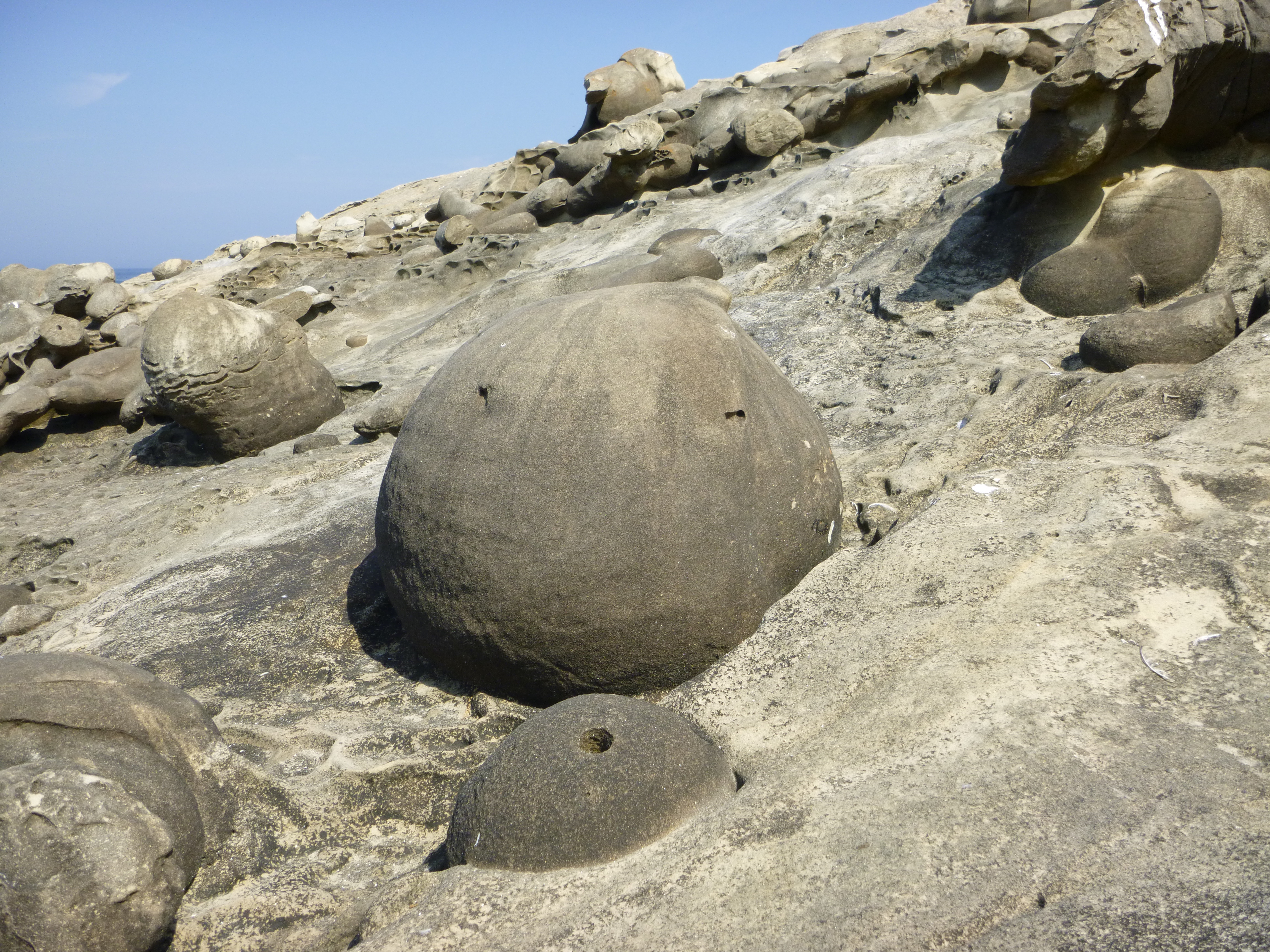 Paramoudra in Jaizkibel